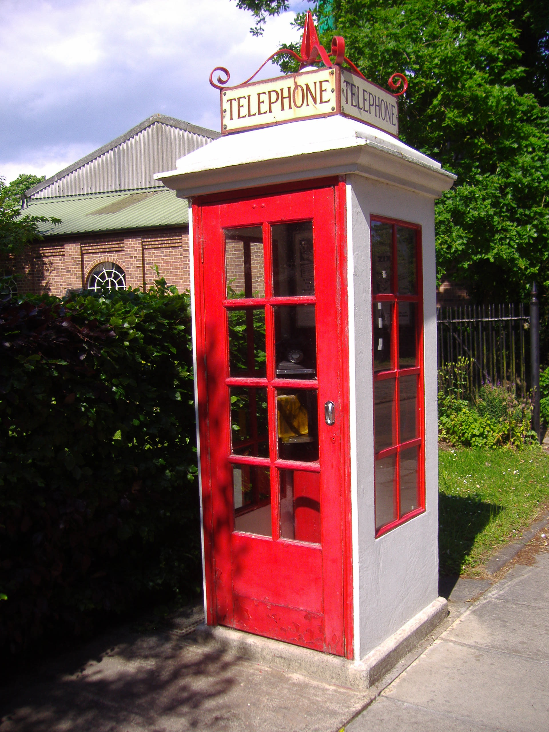 A late-1920s K1 telephone booth at Lowestoft Transport Museum, Carlton Colville. Mk236 type so would have been built between 1927 and 1930.